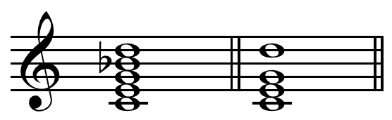 Ninth vs added-ninth chord. Created by Hyacinth (talk) 12:46, 2 July 2011 (UTC) using Sibelius 5.